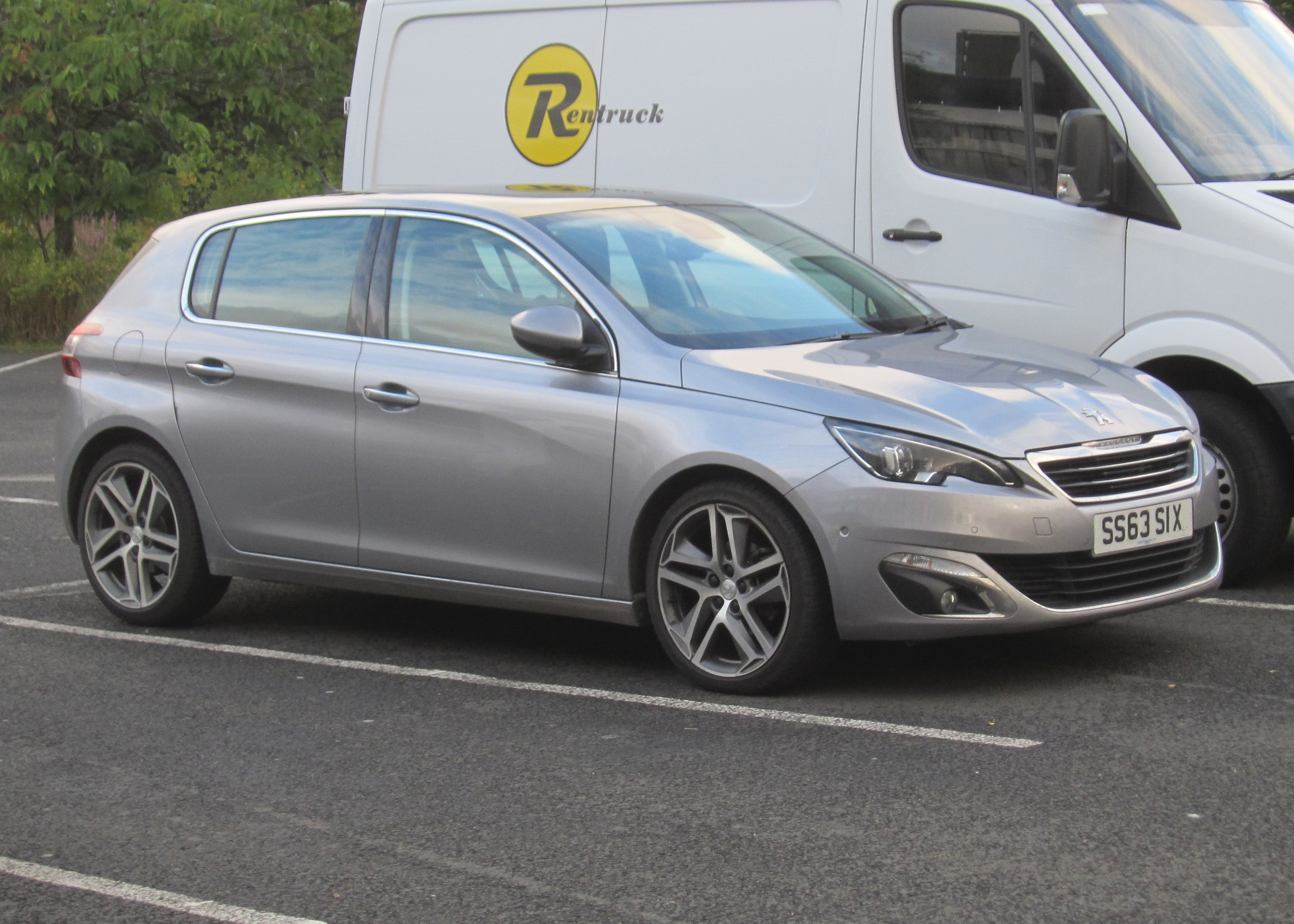 Peugeot 308 B Diesel in Glasgow (2013/2014) The license plate has been changed for anonymization purposes BUT the year codew remains correct